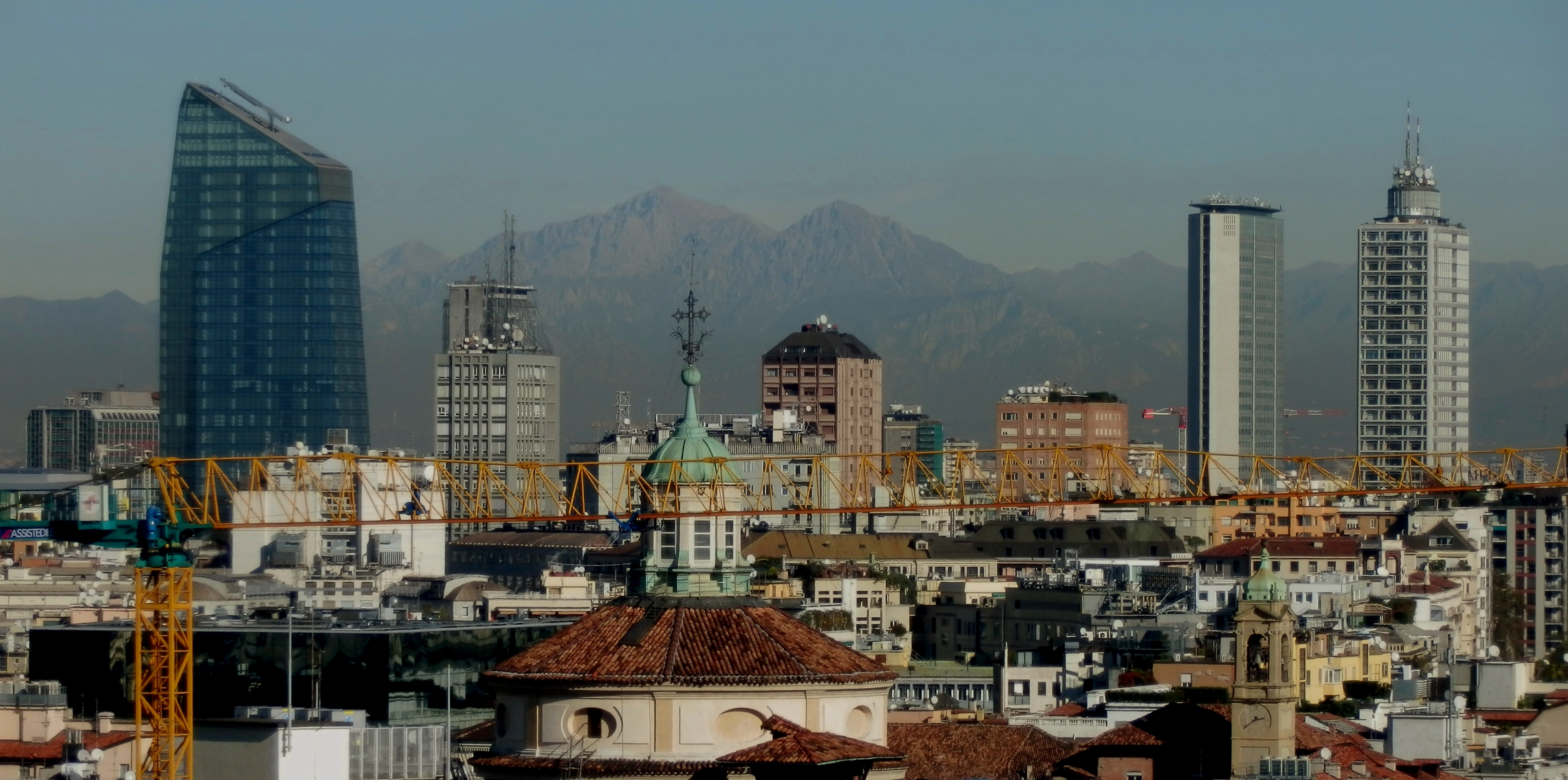 Milan and the Lake Como mountains.